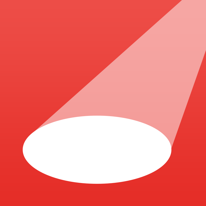 The logo for the YouTube Spotlight channel